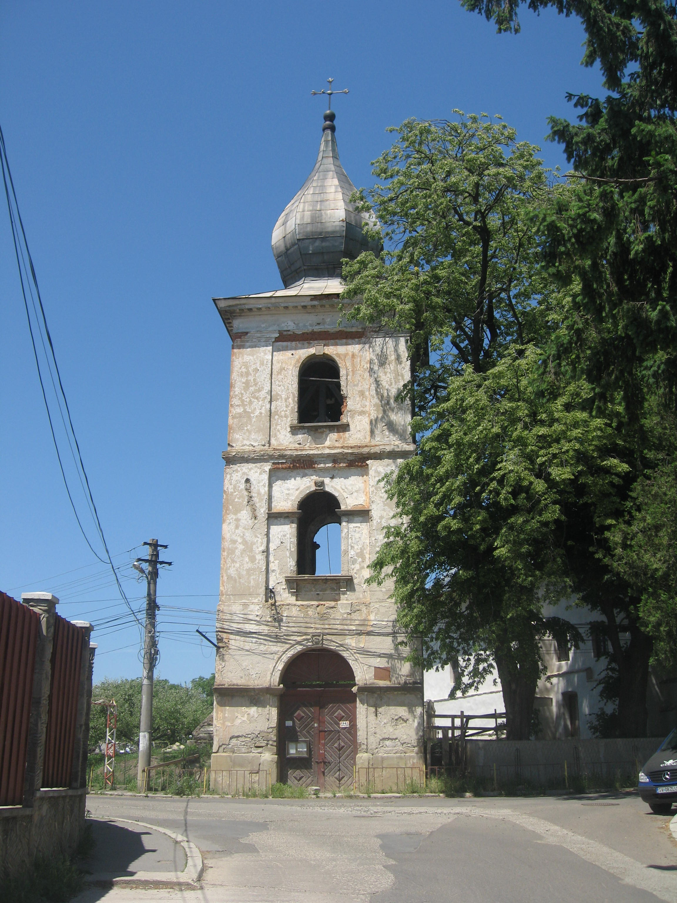 St. Simon Armenian Church in Suceava - The Red Tower.